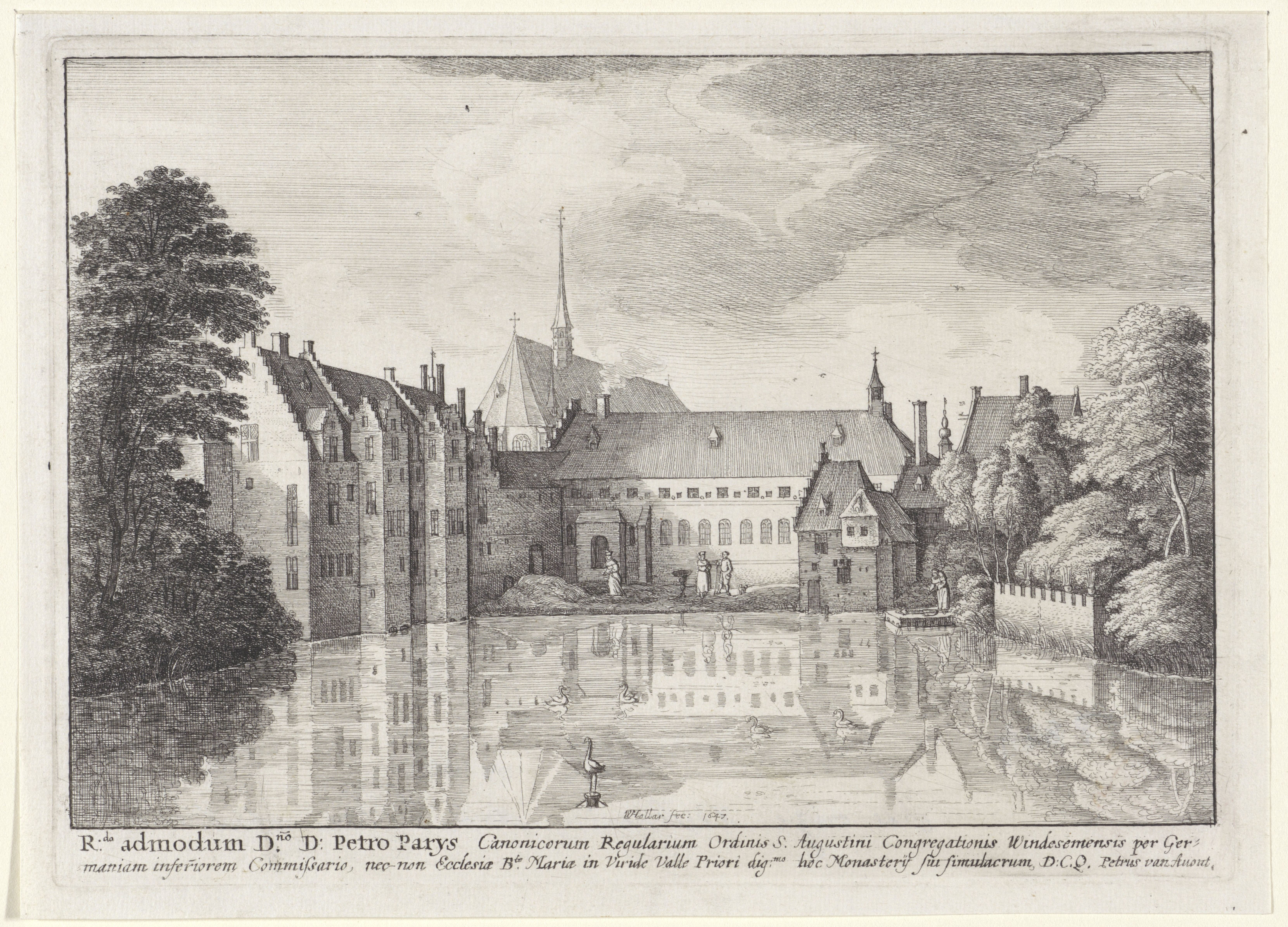 View of Groenendaal Priory by Wenzel hollar, 1647